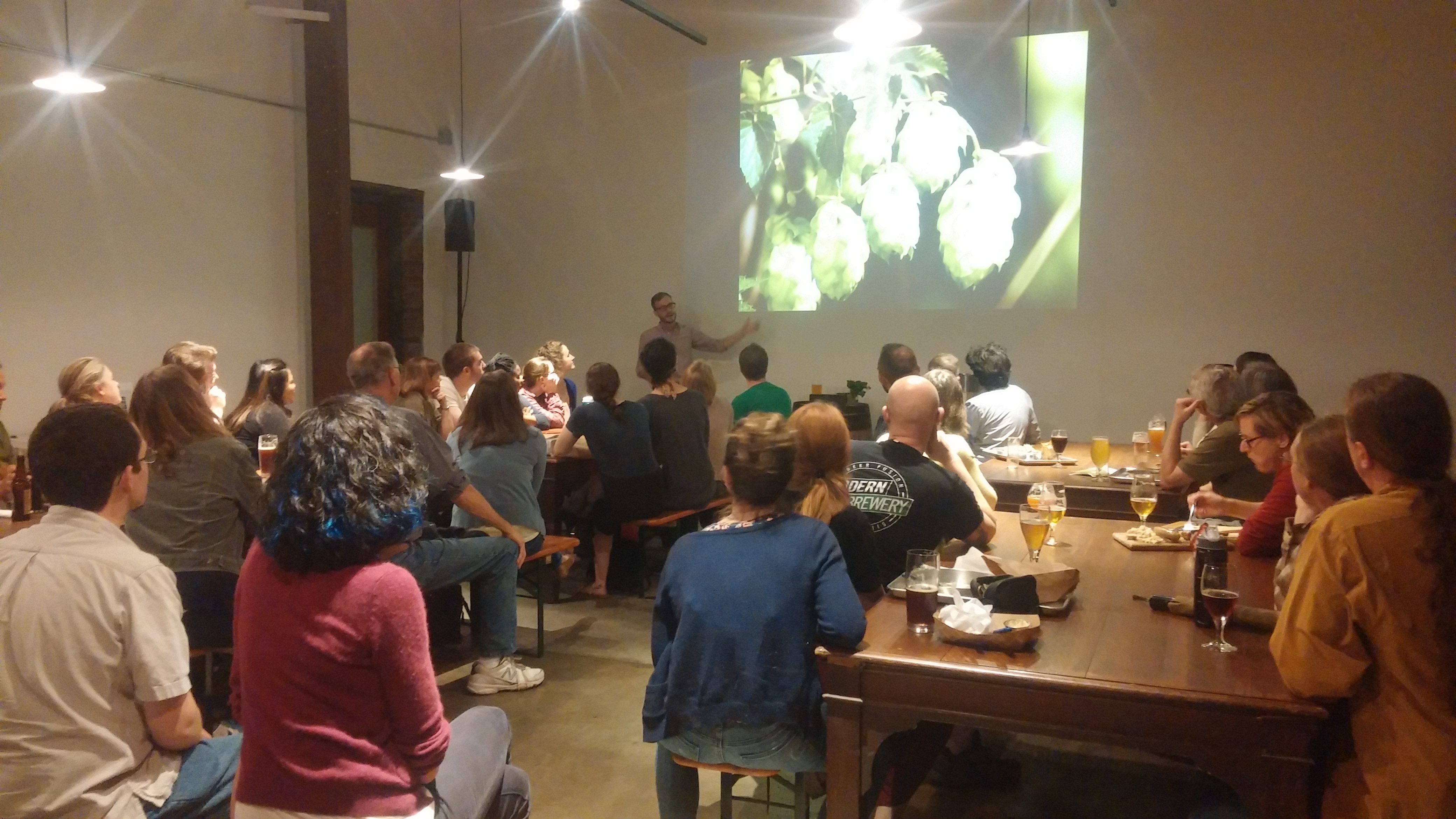 As part of the Pints 'n' Plants lecture, a local Ph.D. candidate from the Plant Biology program at Washington University presented on growing hops both at home and in the community garden, as well as the basics of brewing.